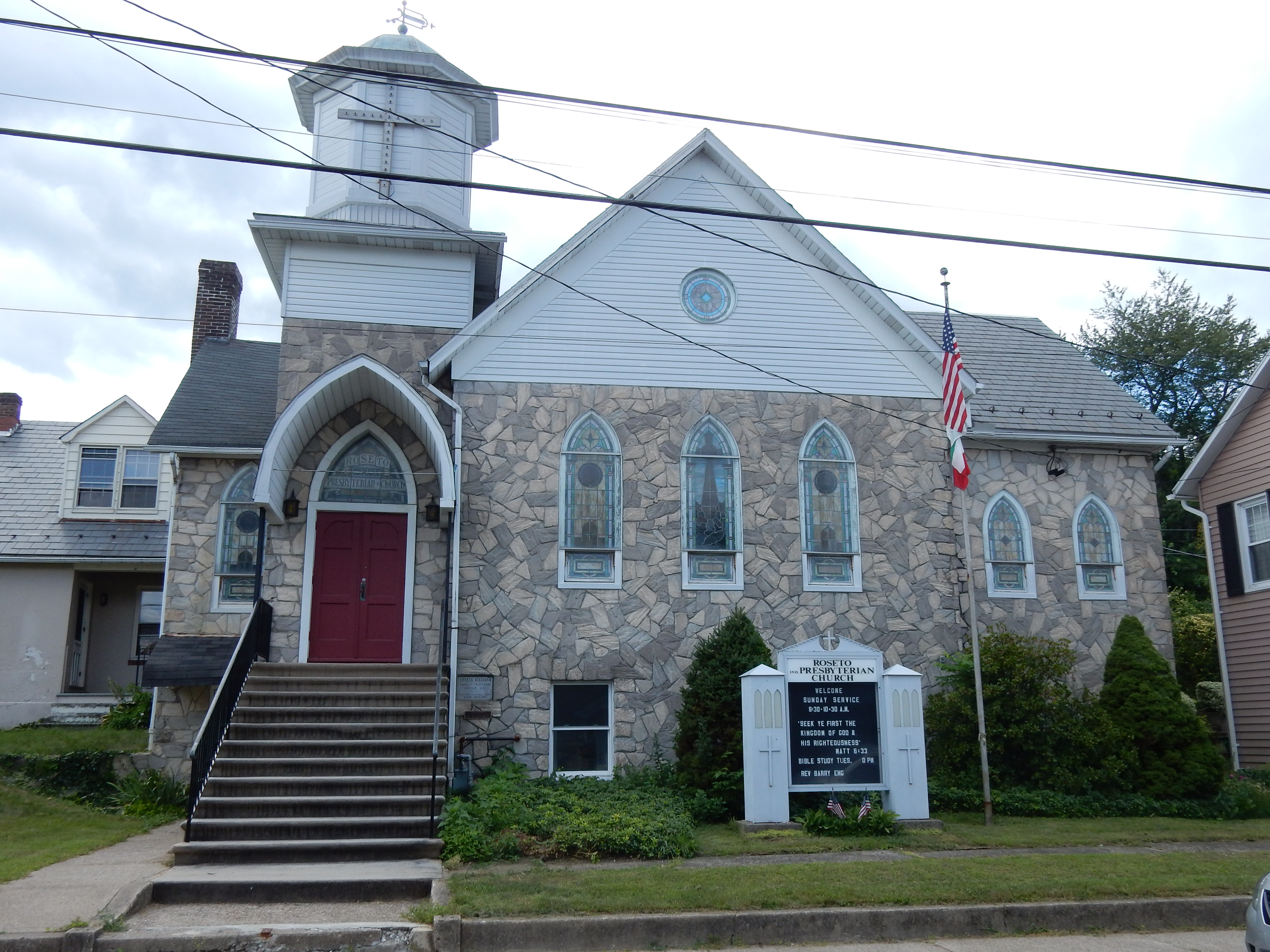 Roseto Presbyterian Church, 210 Garibaldi St., Roseto, Northampton County, Pennsylvania.